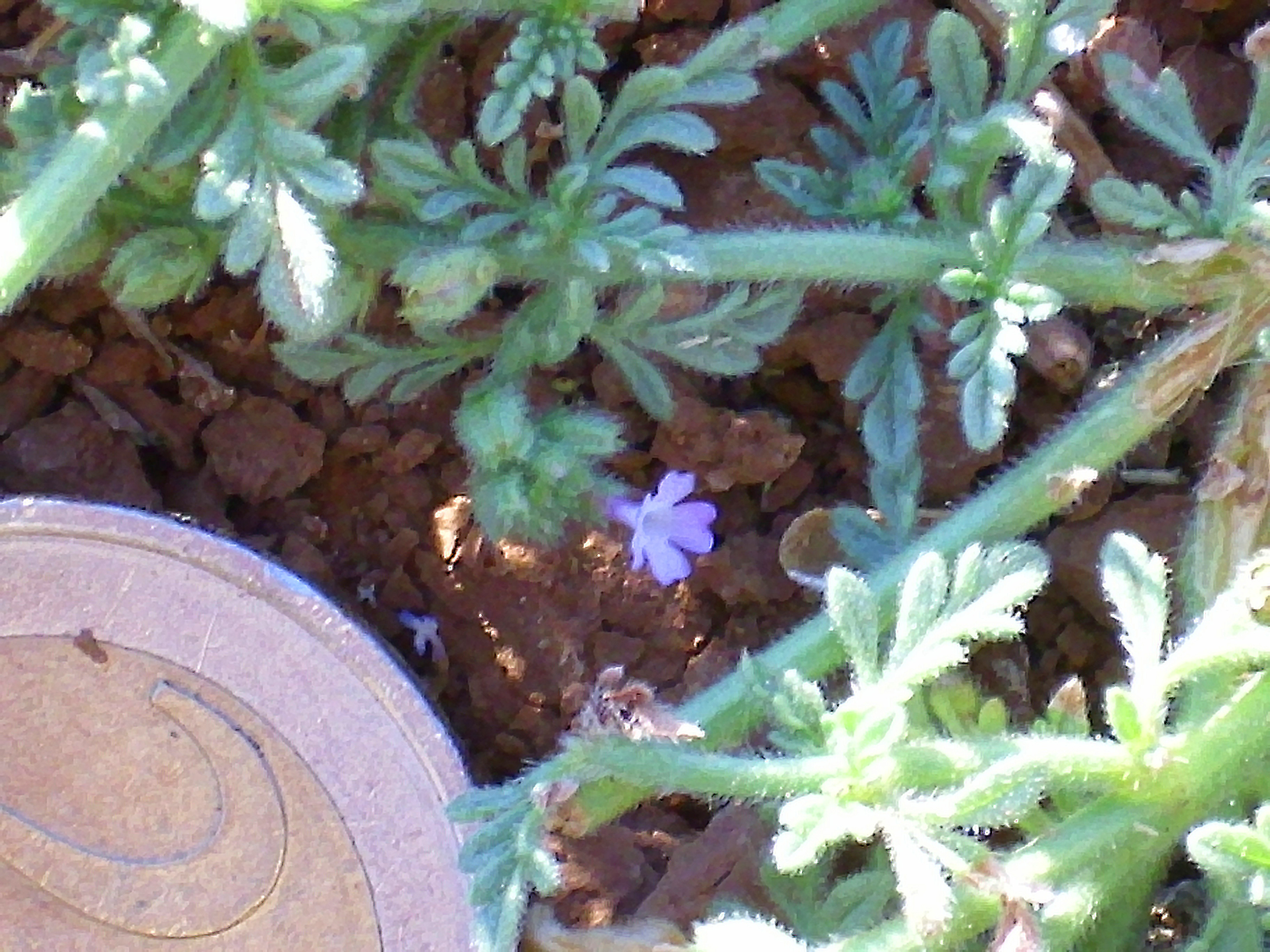 Verbena supina Flower, Jabalón river, Campo de Calatrava, Spain